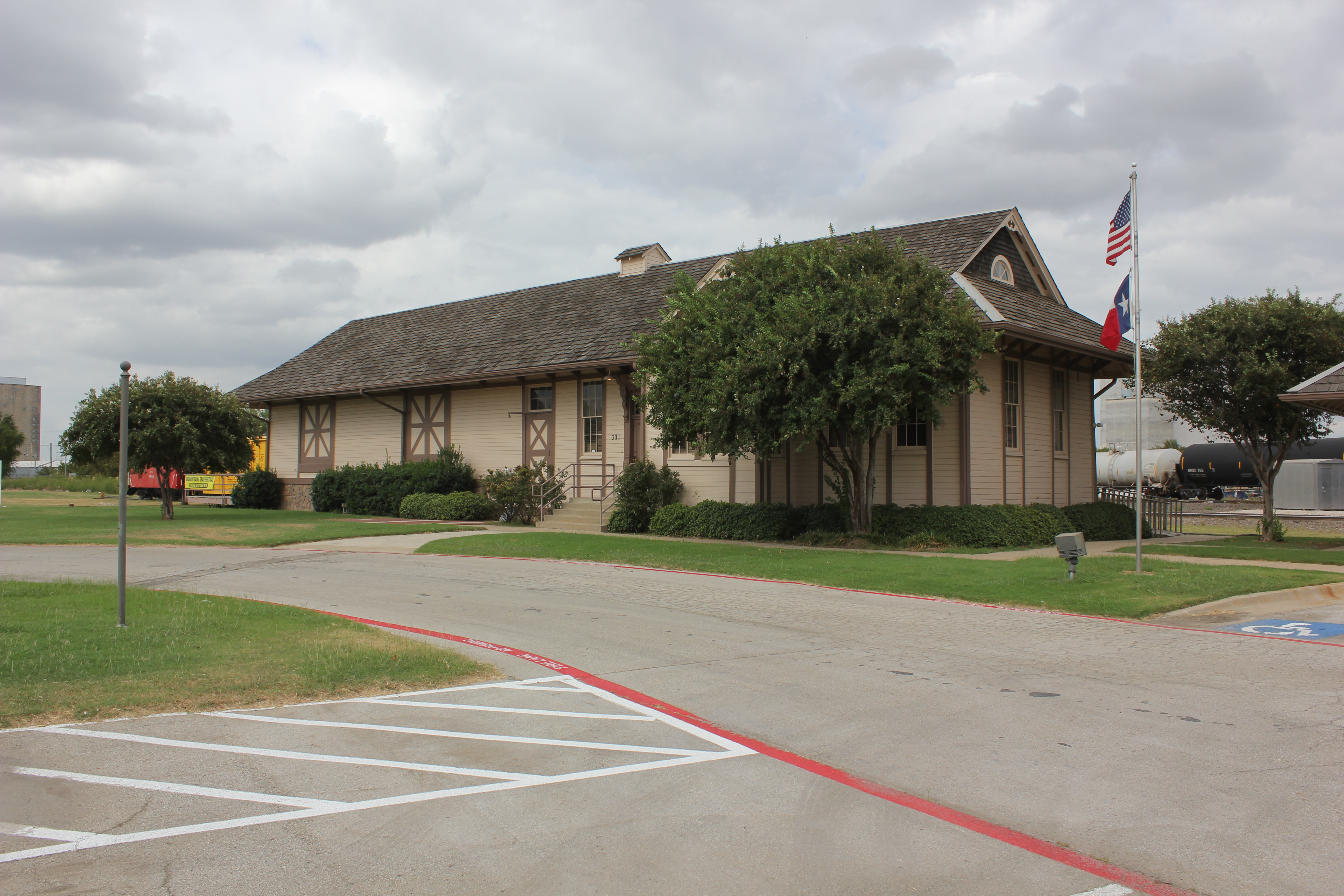 Former Houston and Texas Central Railway depot, first located in Kosse, Texas, was relocated to Saginaw, Texas, where it houses the Saginaw Chamber of Commerce and Saginaw Heritage Center.